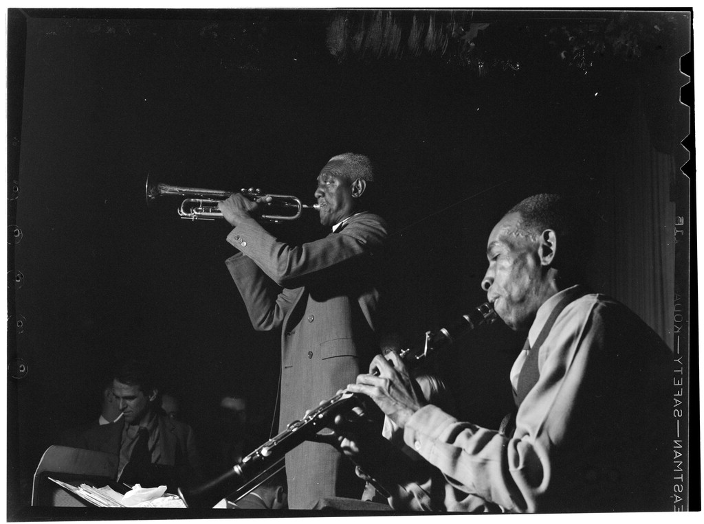 Gottlieb, William P., 1917-, photographer. [Portrait of George Lewis and Bunk Johnson, Stuyvesant Casino, New York, N.Y., ca. June 1946] 1 negative : b&w ; 3 1/4 x 4 1/4 in. Notes: Gottlieb Collection Assignment No. 207 Reference print available in Music Division, Library of Congress. Purchase William P. Gottlieb Forms part of: William P. Gottlieb Collection (Library of Congress). In: The Record Changer, v. 5, no. 12 (Feb. 47, 1947), p. 7. Subjects: Lewis, George, 1900-1968 Johnson, Bunk, 1879-1949 Jazz musicians--1940-1950. Trumpet players--1940-1950. Clarinetists--1940-1950. Stuyvesant Casino Format: Portrait photographs--1940-1950. Group portraits--1940-1950. Film negatives--1940-1950. Rights Info: Mr. Gottlieb has dedicated these works to the public domain, but rights of privacy and publicity may apply. Repository: (negative) Library of Congress, Prints & Photographs Division, Washington D.C. 20540 USA, (reference print) Library of Congress, Music Division, Washington D.C. 20540 USA, Part Of: William P. Gottlieb Collection (DLC) 99-401005 General information about the Gottlieb Collection is available at Persistent URL: Call Number: LC-GLB13- 0563 This work is from the William P. Gottlieb collection at the Library of Congress. Rights and restrictions.In accordance with the wishes of William Gottlieb, the photographs in this collection entered into the public domain on February 16, 2010.